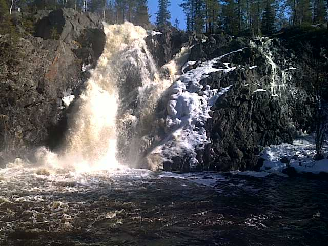 Hepoköngäs waterfall in Puolanka, Finland